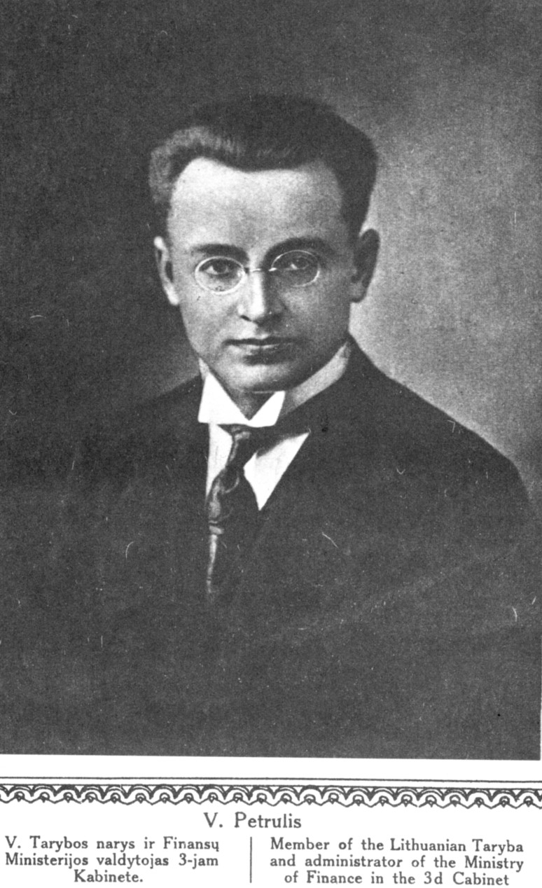 Vytautas Petrulis, member of II Lithuanian Seimas, Prime minister of Lithuania